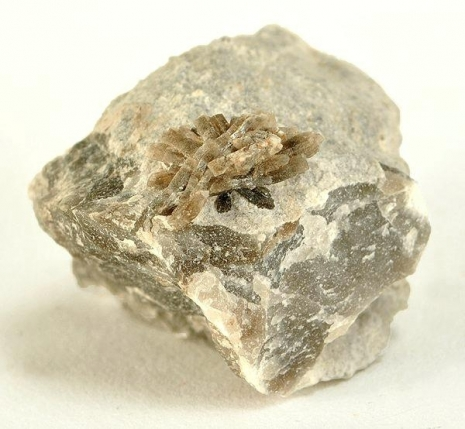 Howlite Locality: Bras D'Or Lake, Iona, Cape Breton Island, Victoria County, Nova Scotia, Canada (Locality at ) Size: 3.5 x 3.3 x 2.6 cm Howlite is a rare borate found in gypsum and anhydrite deposits. This very fine 1.6 cm wide spray of lustrous, translucent, grayish-brown howlite prisms is attractively set on matrix of massive anhydrite and is from Cape Breton Island, Nova Scotia. The howlite Type Locality is also in Nova Scotia and near Windsor. Seldom available material.